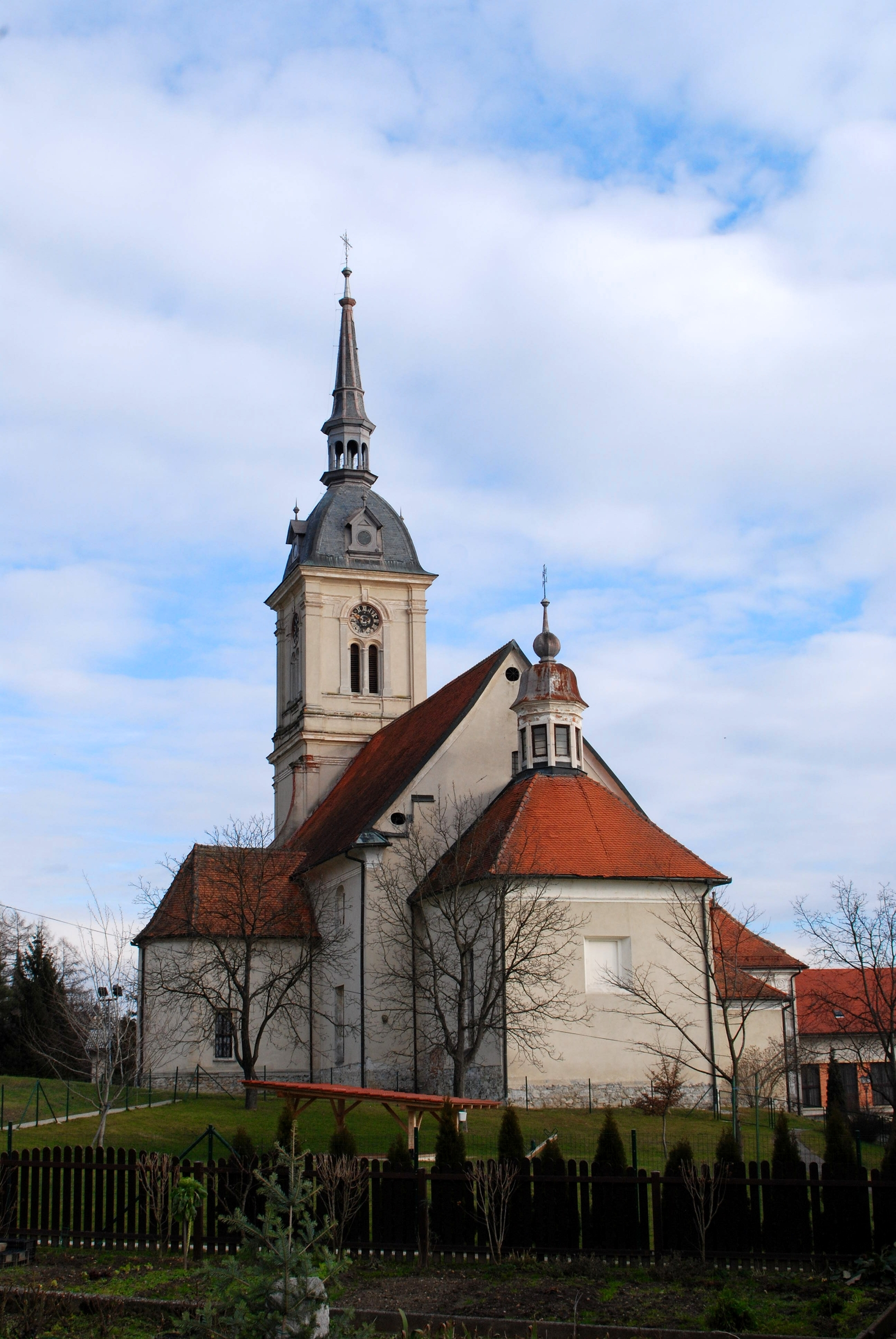 St. Bartholomew's Church in Slovenska Bistrica. Picture taken from the west side (Pohorje Battalion Street).